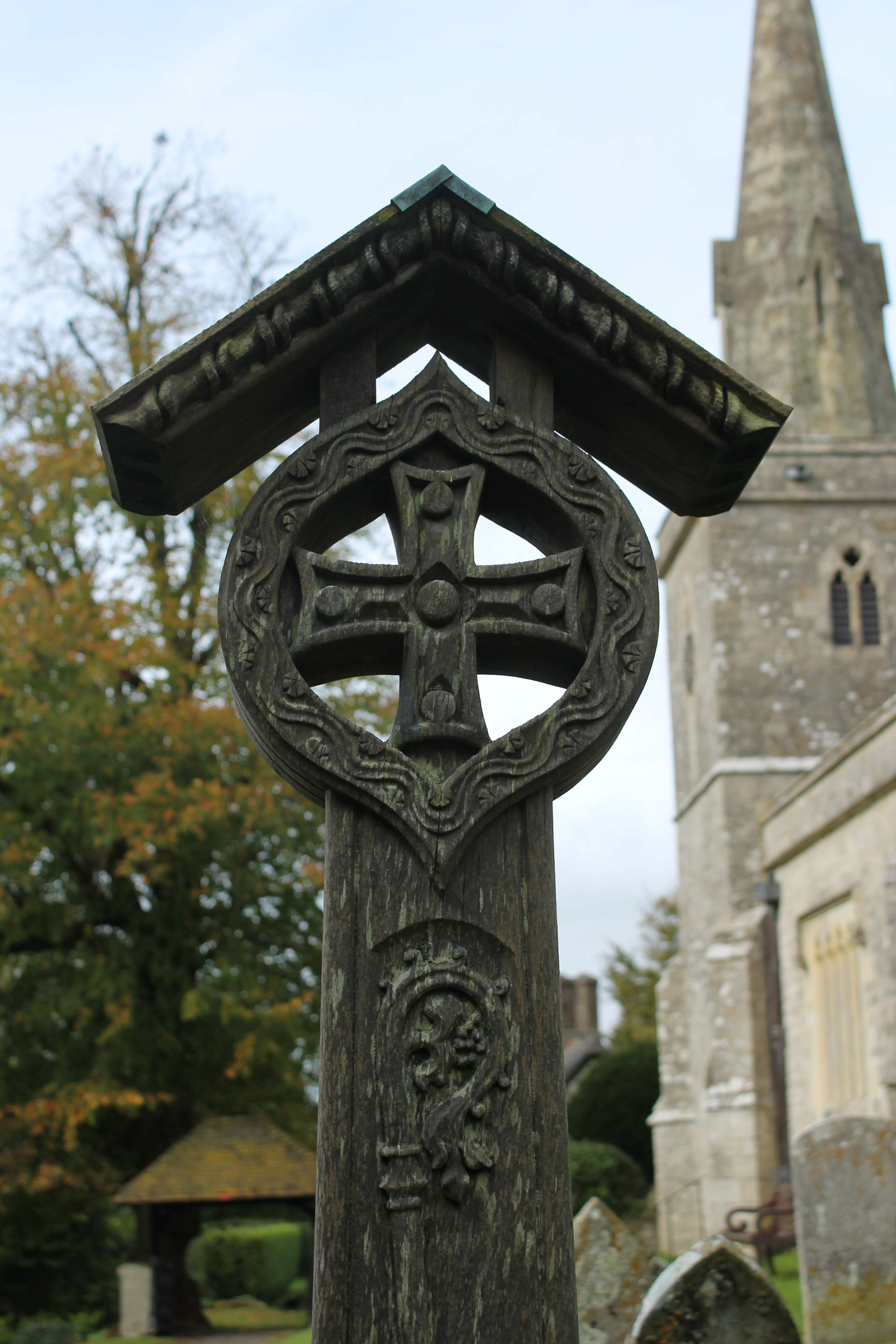 A wooden memorial in the churchyard of St Michael & All Angels, Little Bredy, Dorset. The inscription reads: FREDERIC WALLIS DD 1853-1928 THIRD BISHOP OF WELLINGTON NZ FELLOW AND SOMETIME DEAN OF GONVILLE AND CAIUS COLL CAMB WHO WAS FILLED WITH THE SPIRIT OF POWER AND OF LOVE AND OF A SOUND MIND.